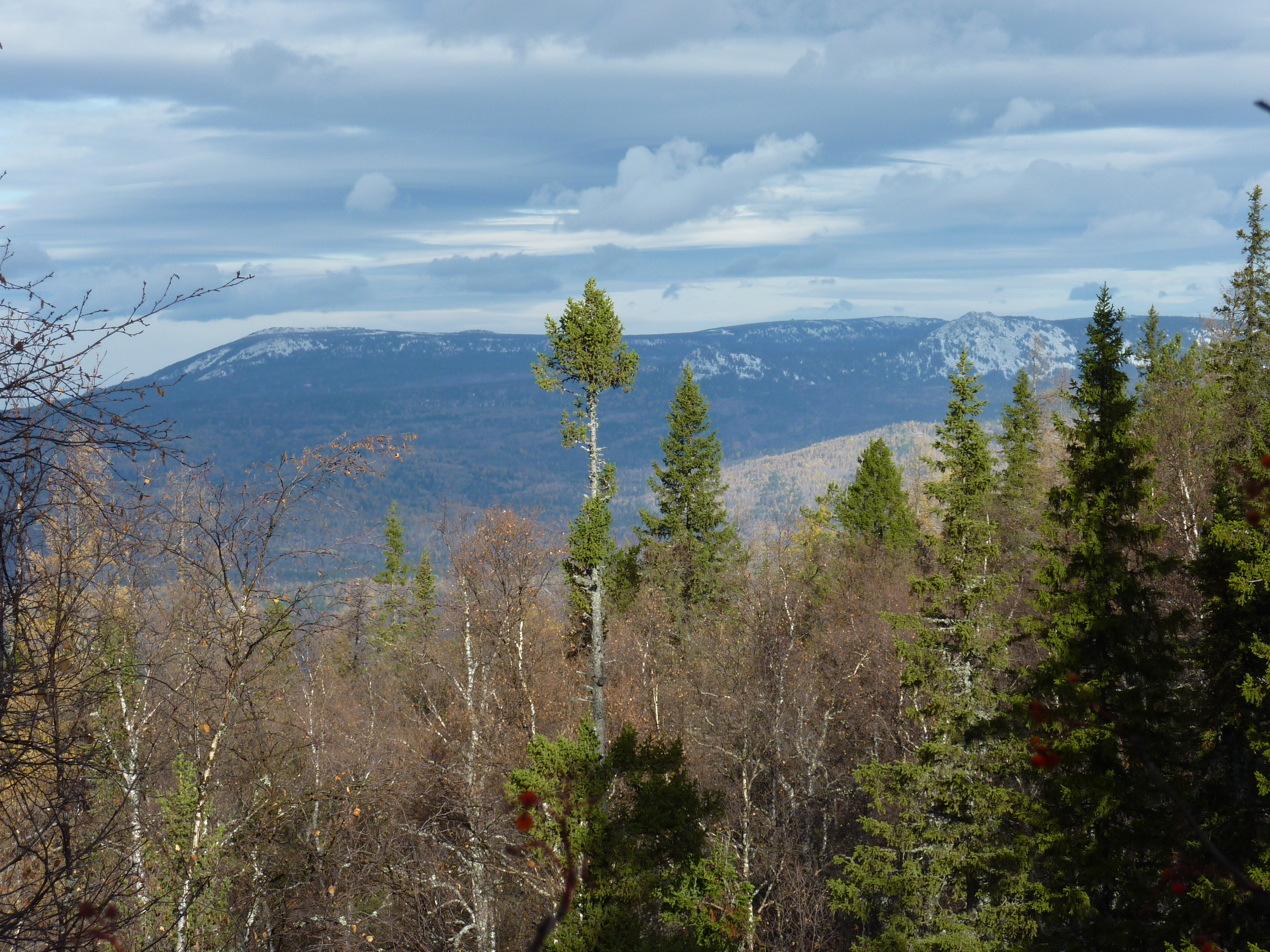 Zigalga mountain range. The trees to the right are Picea obovata, a spruce native to Siberia.